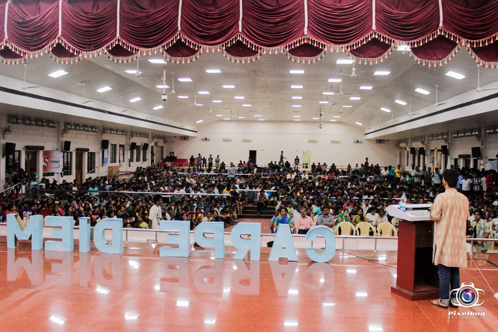 Sid Sriram at Carpe Diem, Festember ‘16